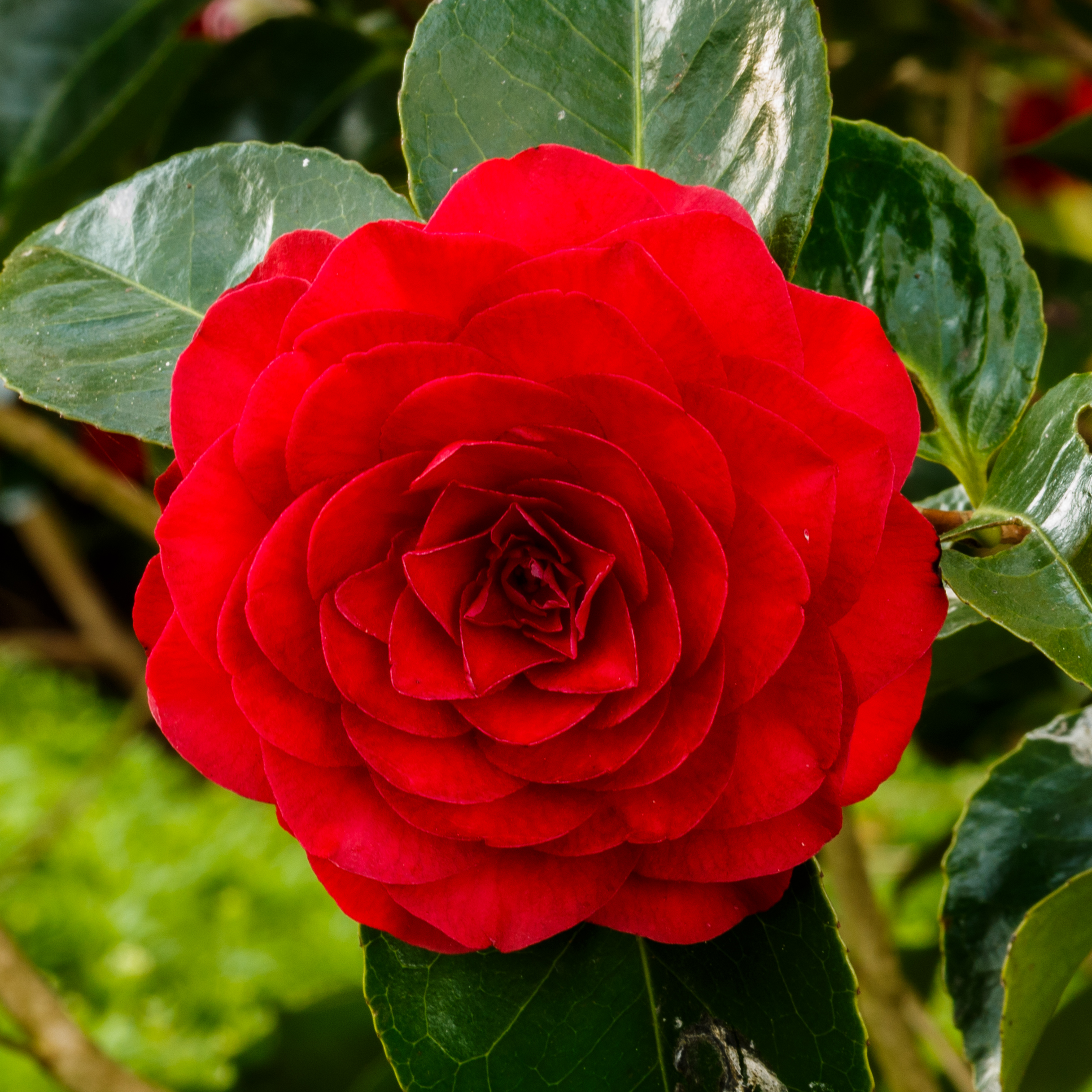 Camellia x williamsii 'Roger Hall. Location, Garden Tuinreservaat Jonker Valley.